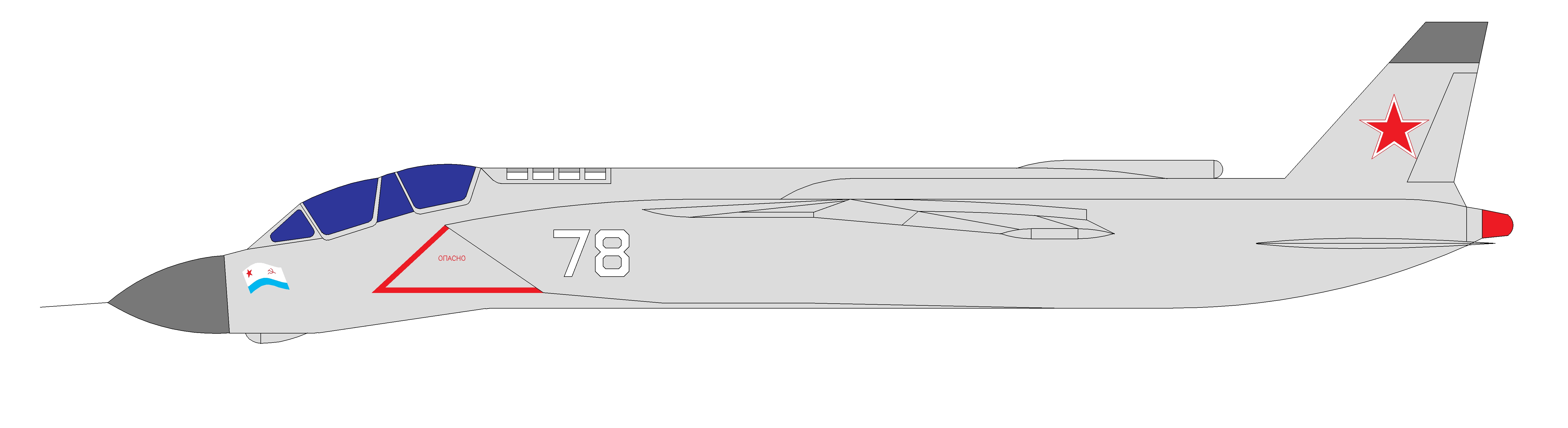 Probable appearance of Yakovlev Yak-41UT VTOL trainer aircraft